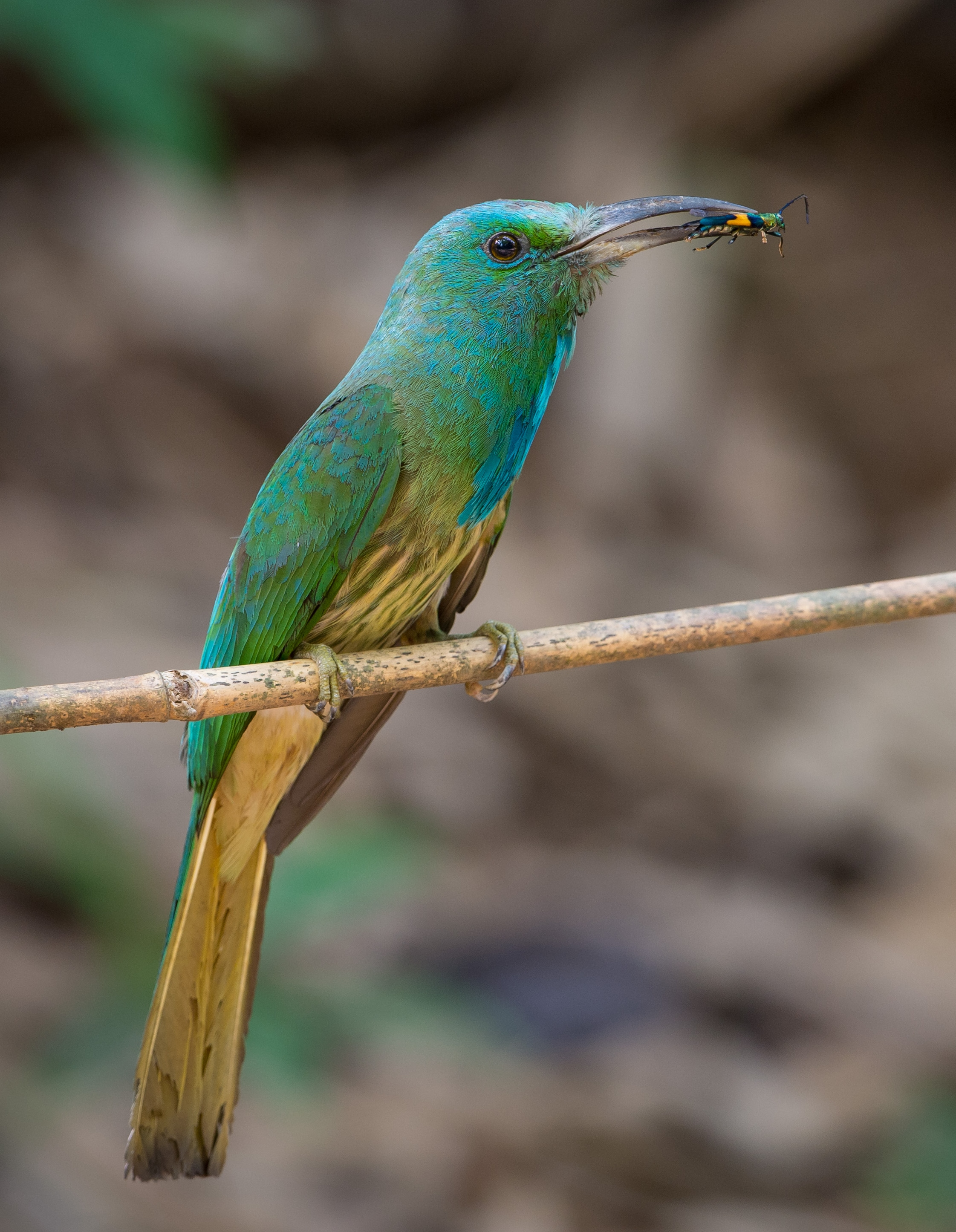 05 May 2013 Kaeng Krachan National Park, Phetchaburi, Thailand